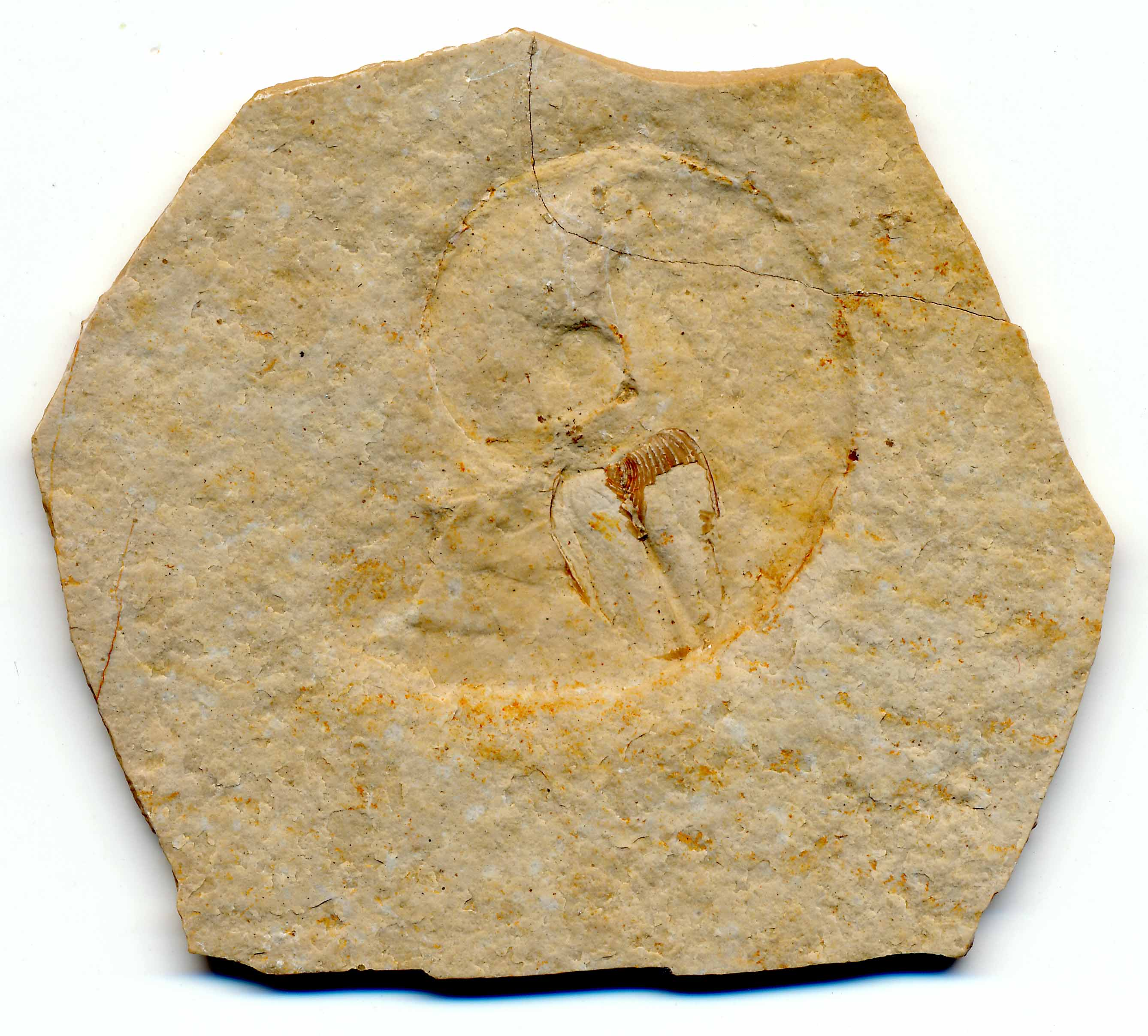 ammonite with lower part of the jaw apparatus (aptychus) inside from the Upper Jurassic of germany (Sonhofen)